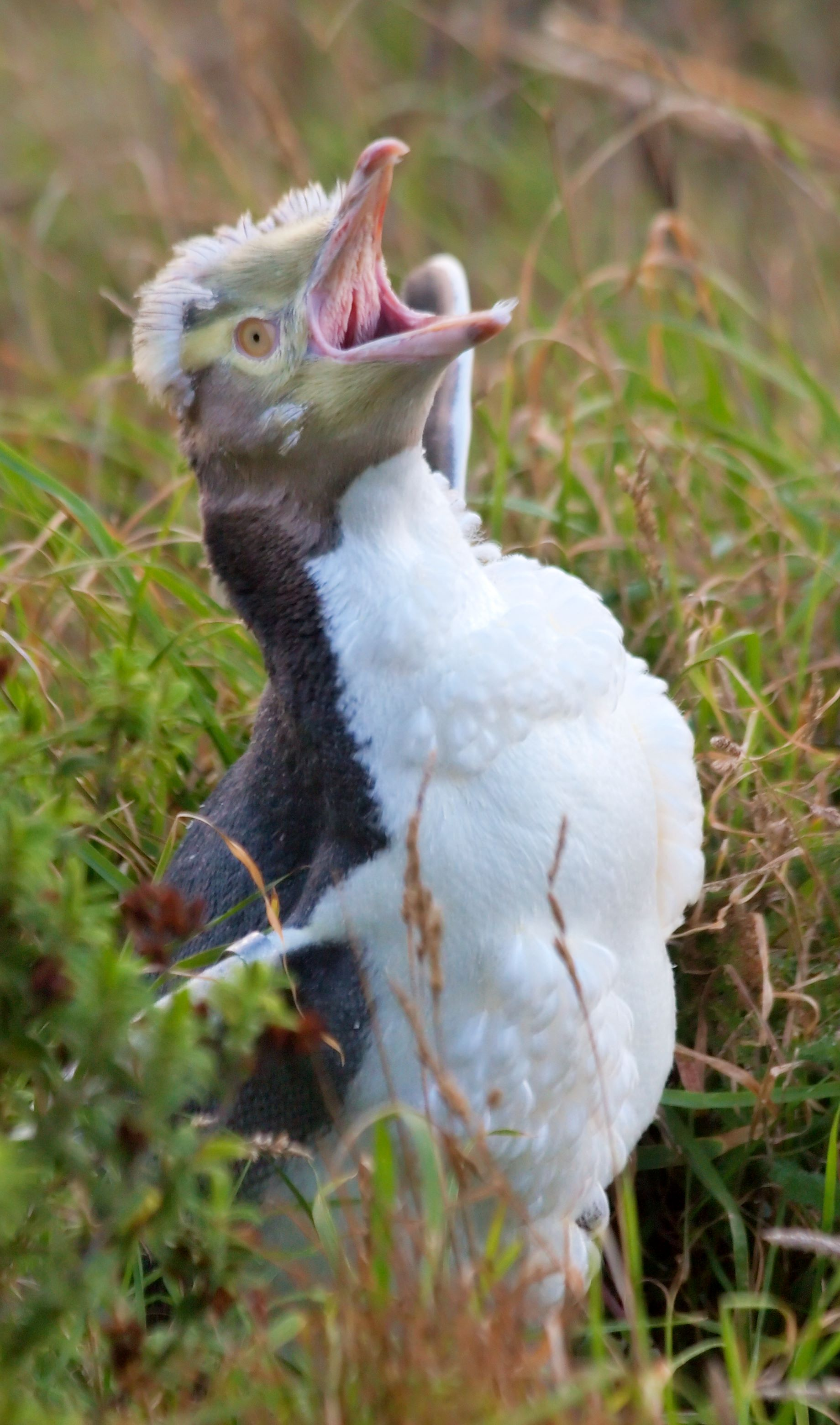 Yellow-eyed penguin (Megadyptes antipodes) at Bushy Beach, Oamaru, New Zealand. This penguin was molting, thus the disheveled feathers. It was blocking the passage to the sea of another (non molting) penguin, making menacing noises and gestures.